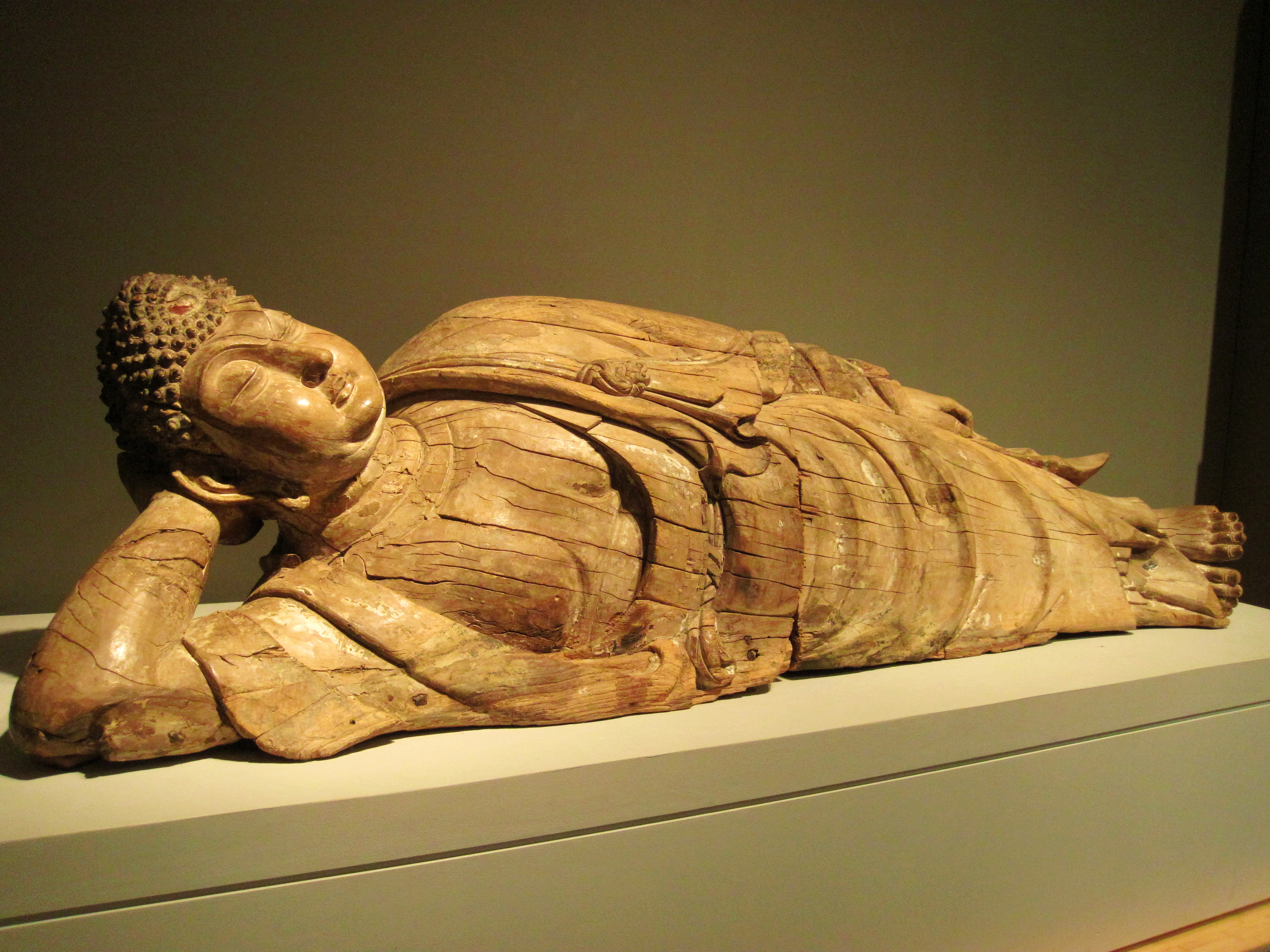 This 16th century reclining figure depicts the last episode in the Buddha's earthly life, his final sermon prior to his death or the beginning of the nirvana. Picture taken at the "Cantor Arts Center" at Stanford University.